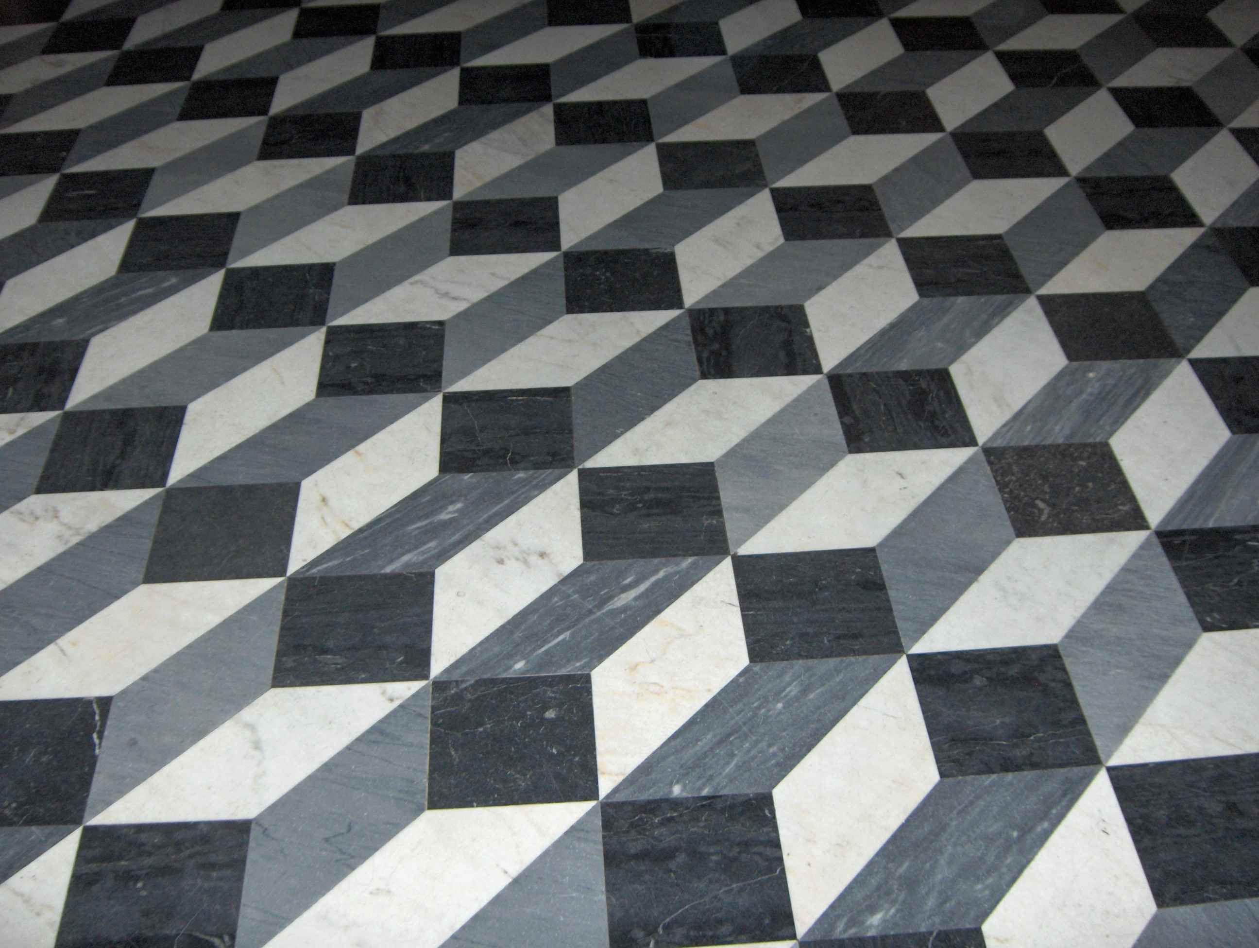 This is a picture of floor tiles in Basilica of St. John Lateran, which create an optical illusion. The picture was taken by Tino Warinowski (User:Chino) in June 2006 and is hereby released to the public domain.